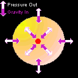 Stellar core showing gravitational compression counterbalanced by outward pressure created by fusion reactions